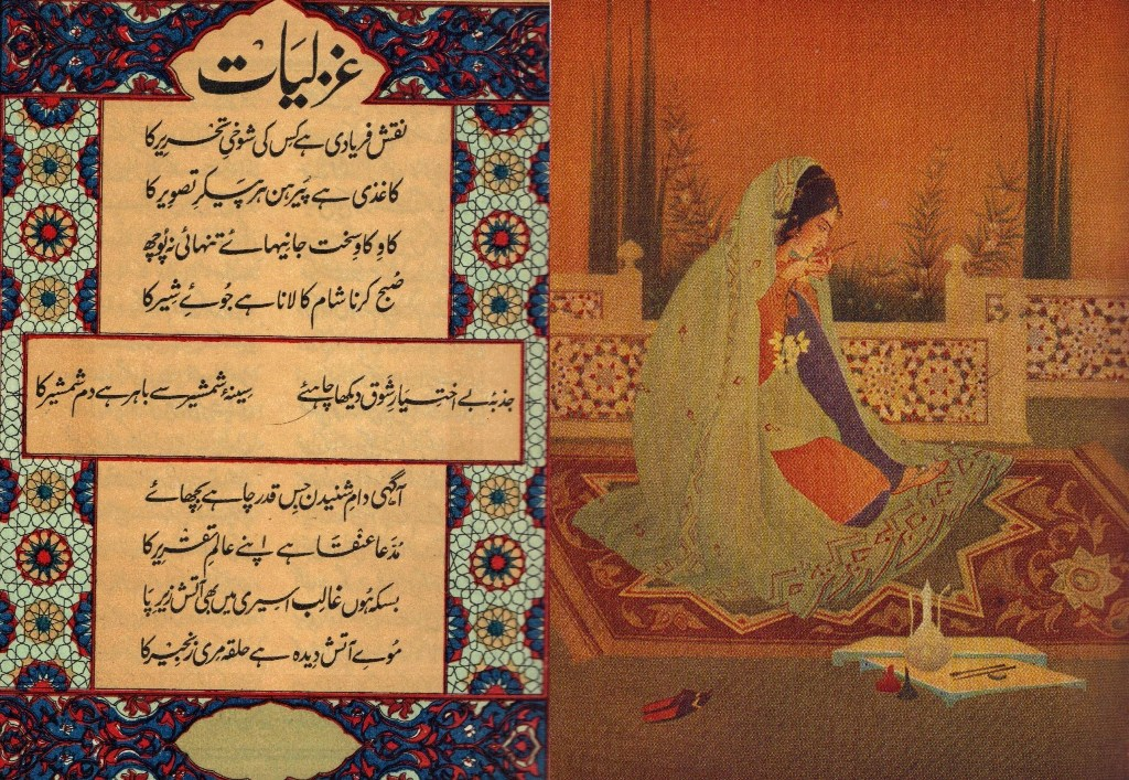 Verse by famed Urdu poet Mirza Ghalib and illustrations by artist Abdur Rahman Chughtai, Lahore, British India, 1927